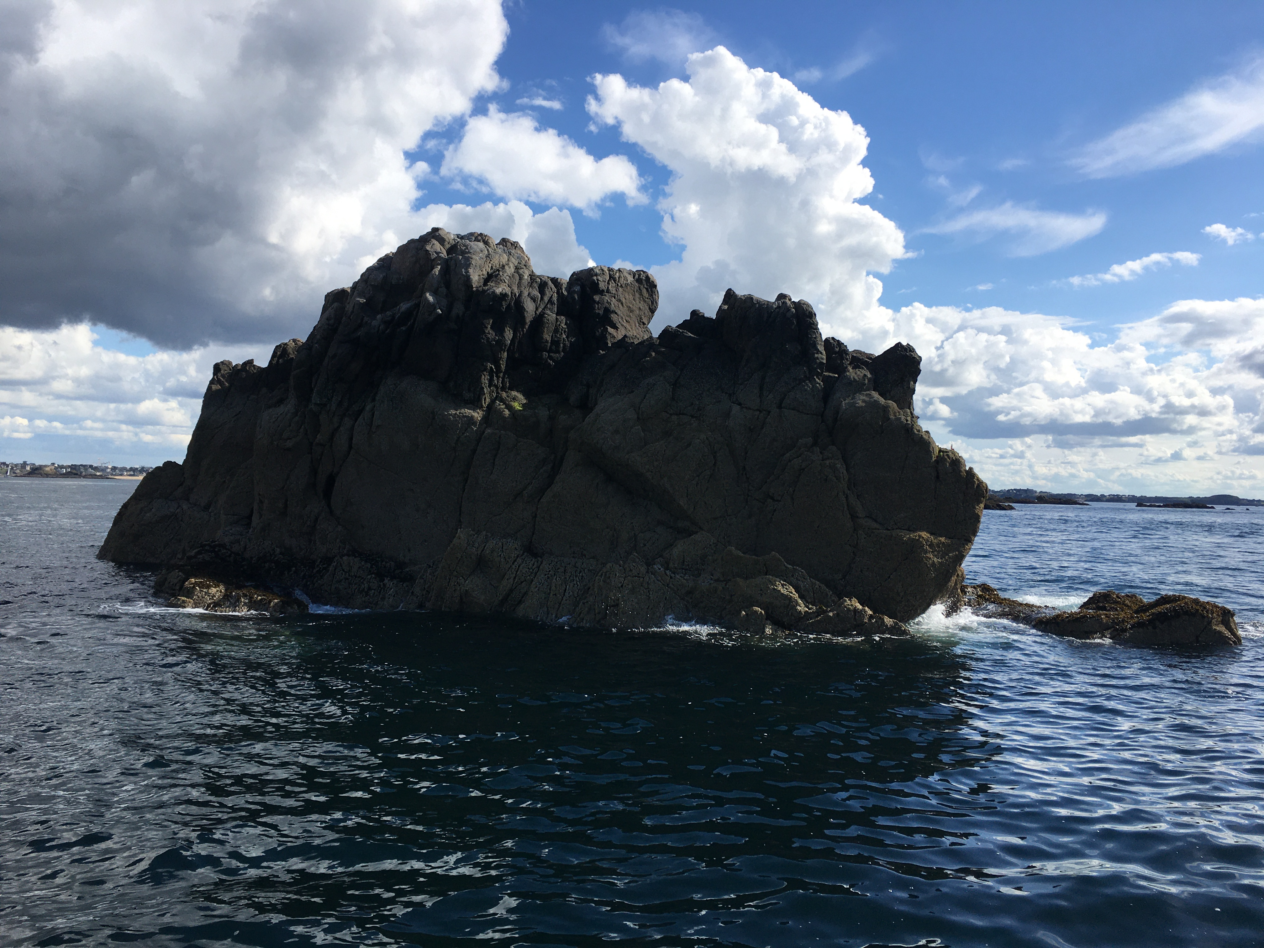 Rocher du Dragon (Baie de Saint Malo)